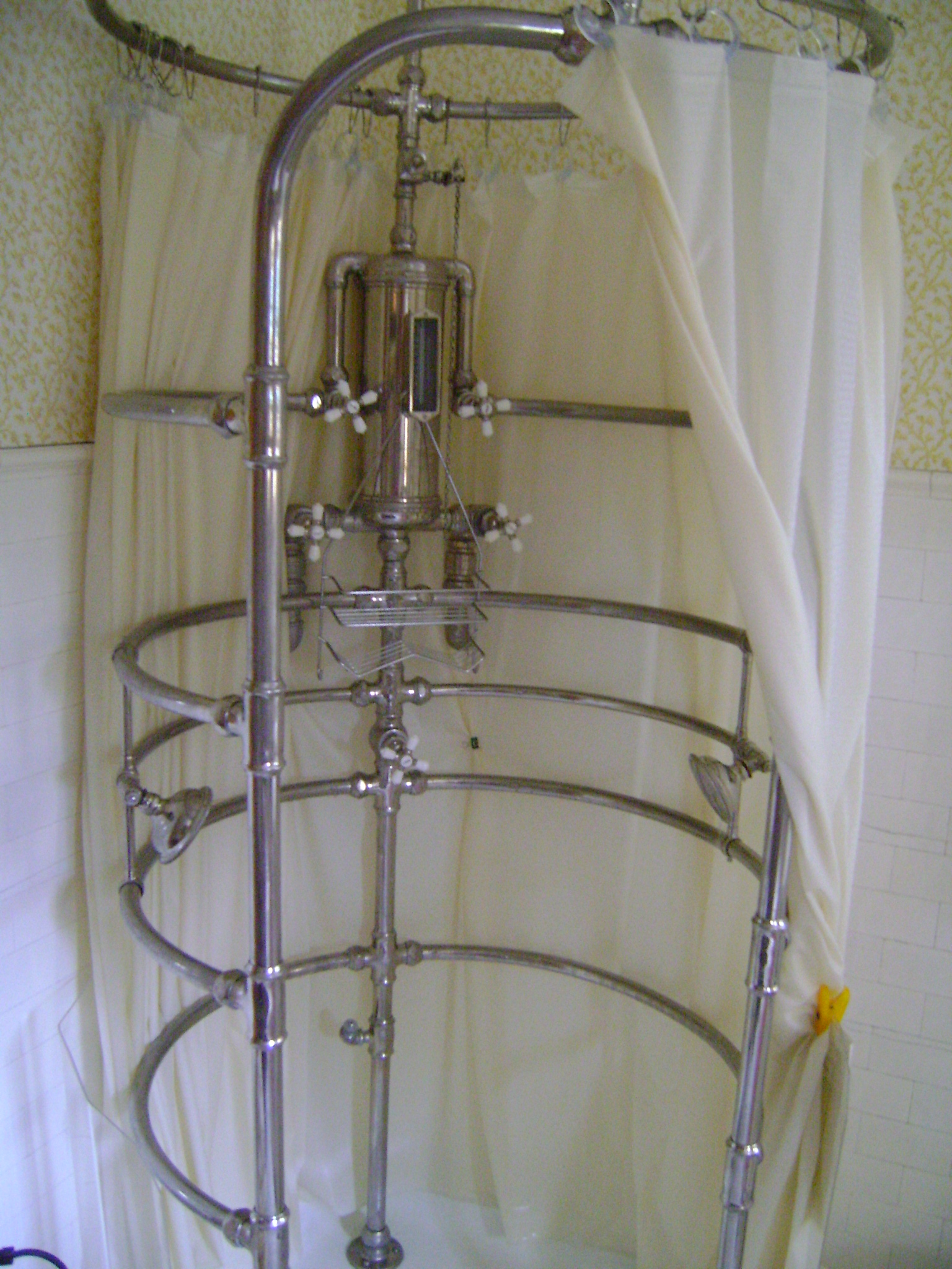 Rib shower at the Cartier Mansion in Ludington, Michigan